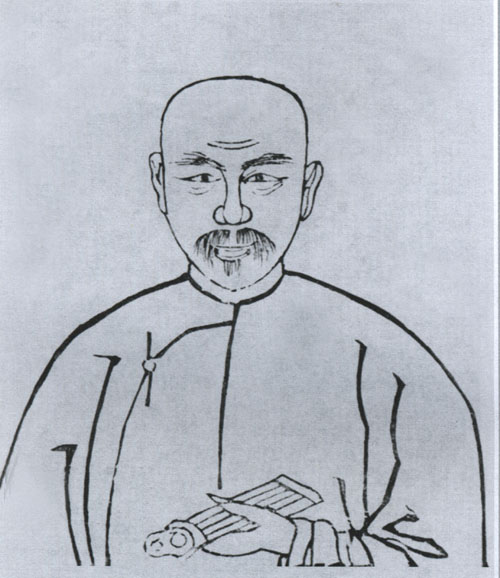 Xie Zhangting, poet of the Qing Dynasty.